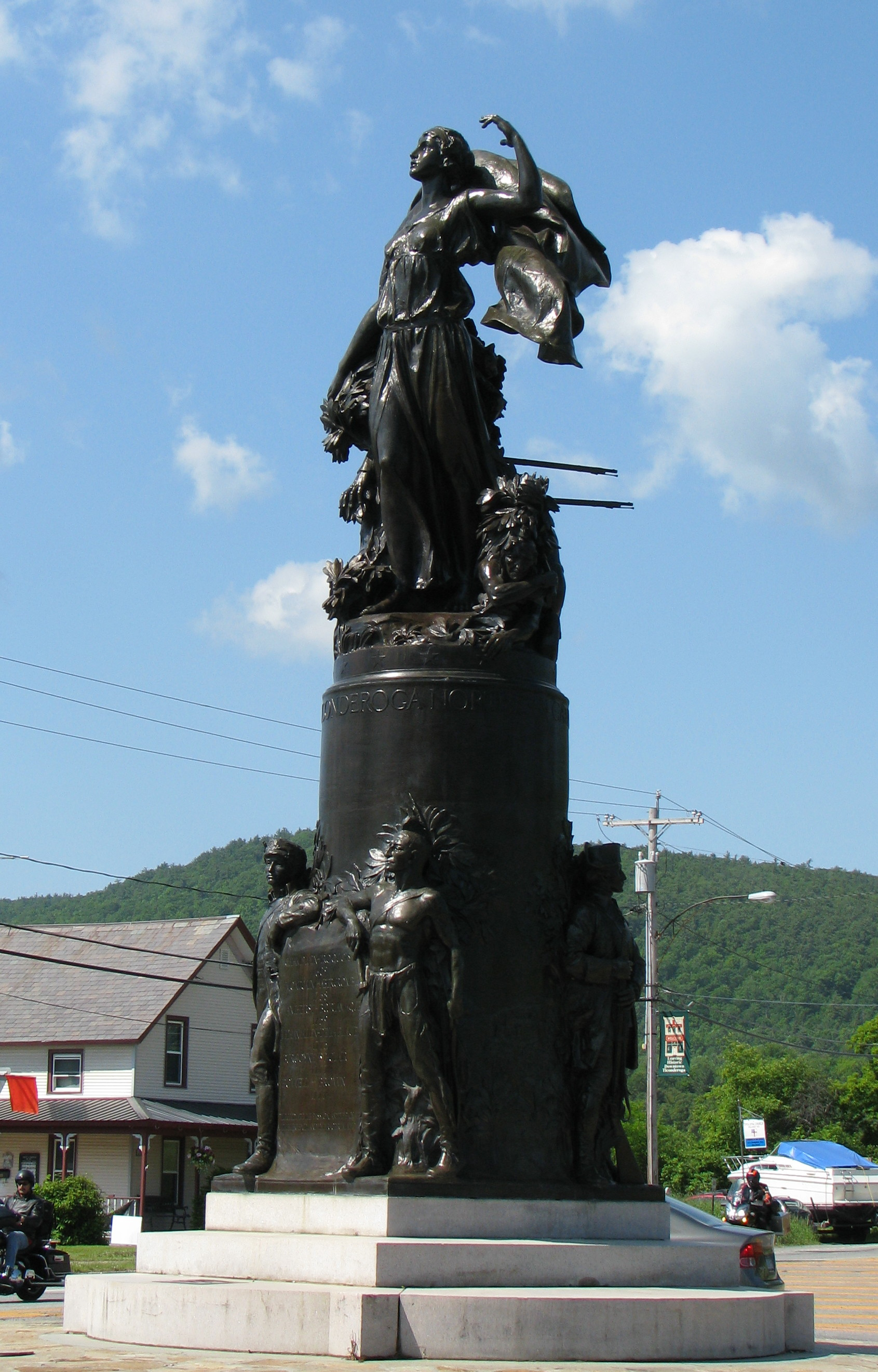 The Liberty Monument at Moses Circle, Ticonderoga, New York